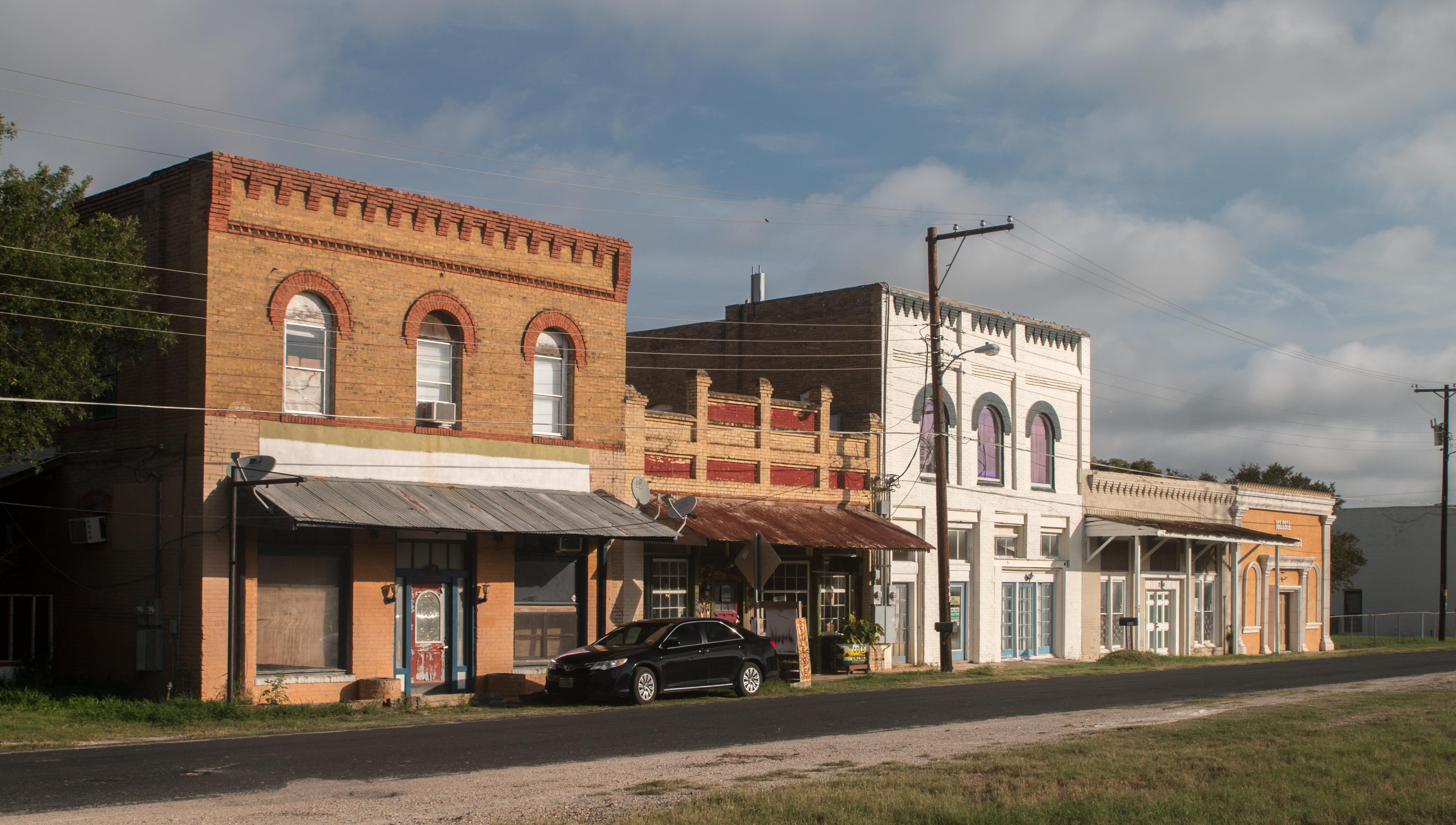 The town of Devine, Texas